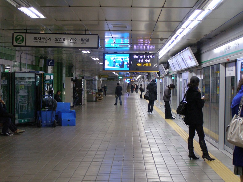 Euljiro 1-ga Station